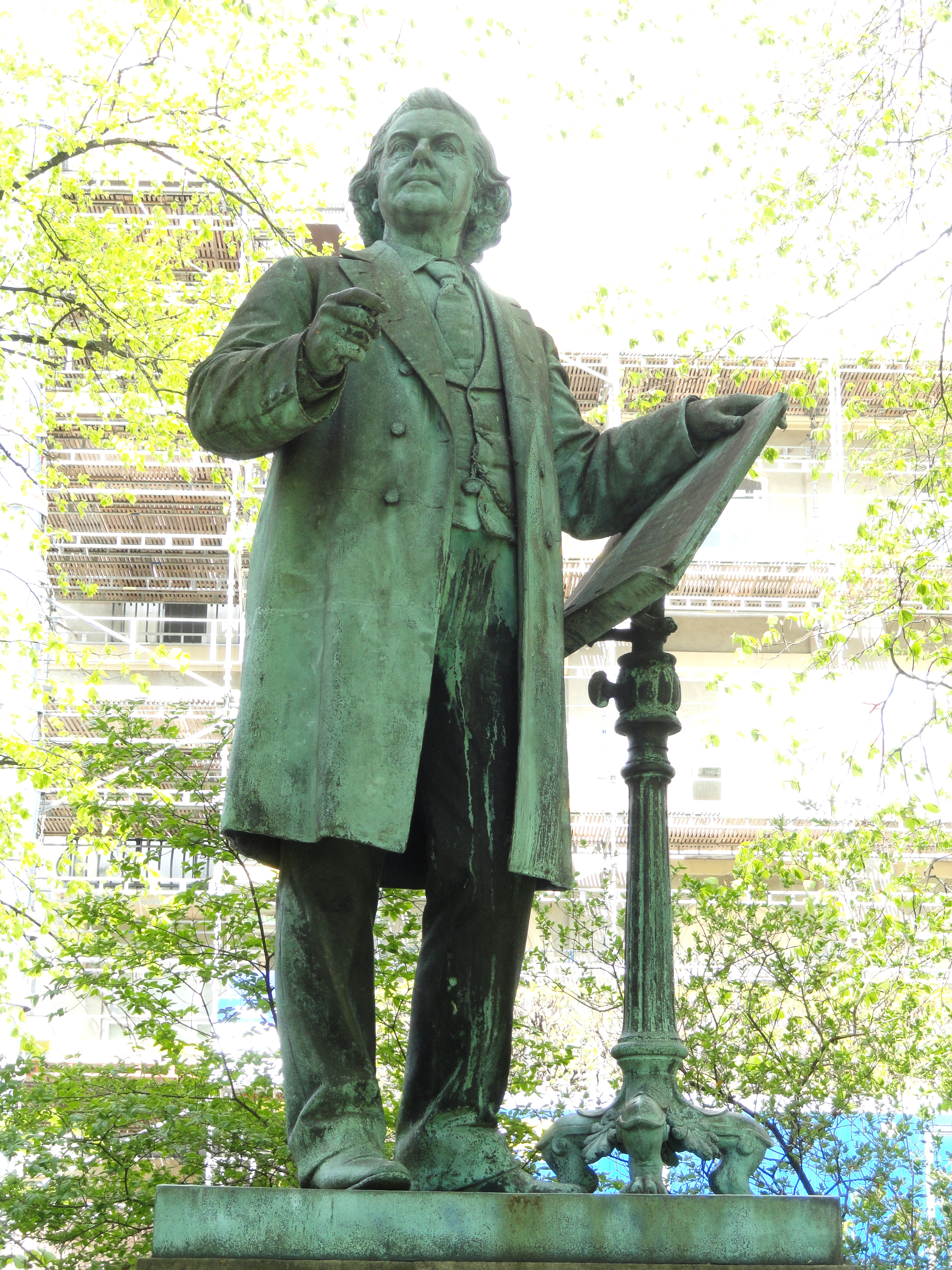 Niels Wilhelm Gade by Peder Severin Krøyer (1851-1909), Copenhagen, Denmark. This sculpture is in the public domain because the sculptor died more than 70 years ago.